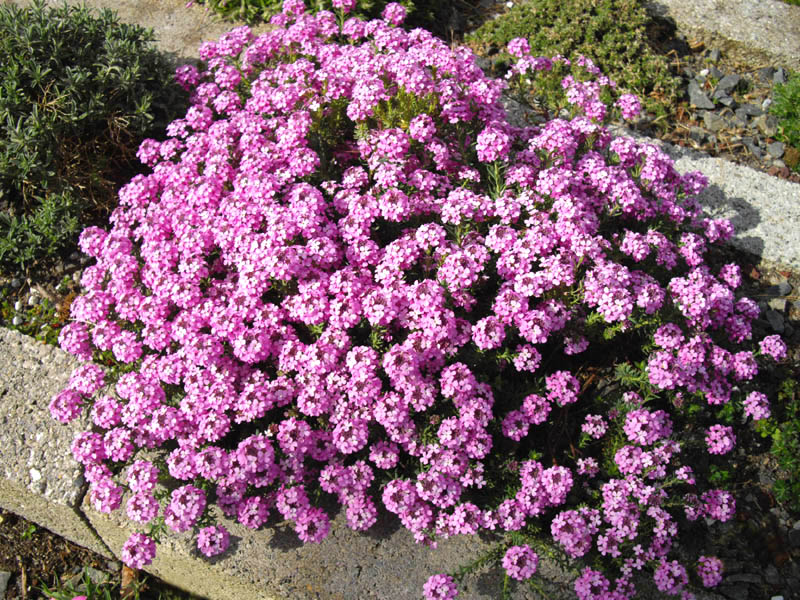 Aethionema armenum 'Warley Rose'